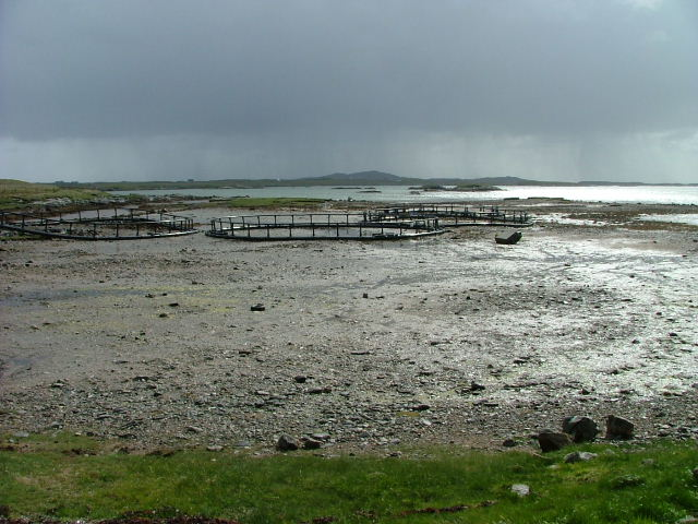 Fish cages at Benbecula, Outer Hebrides, Scotland